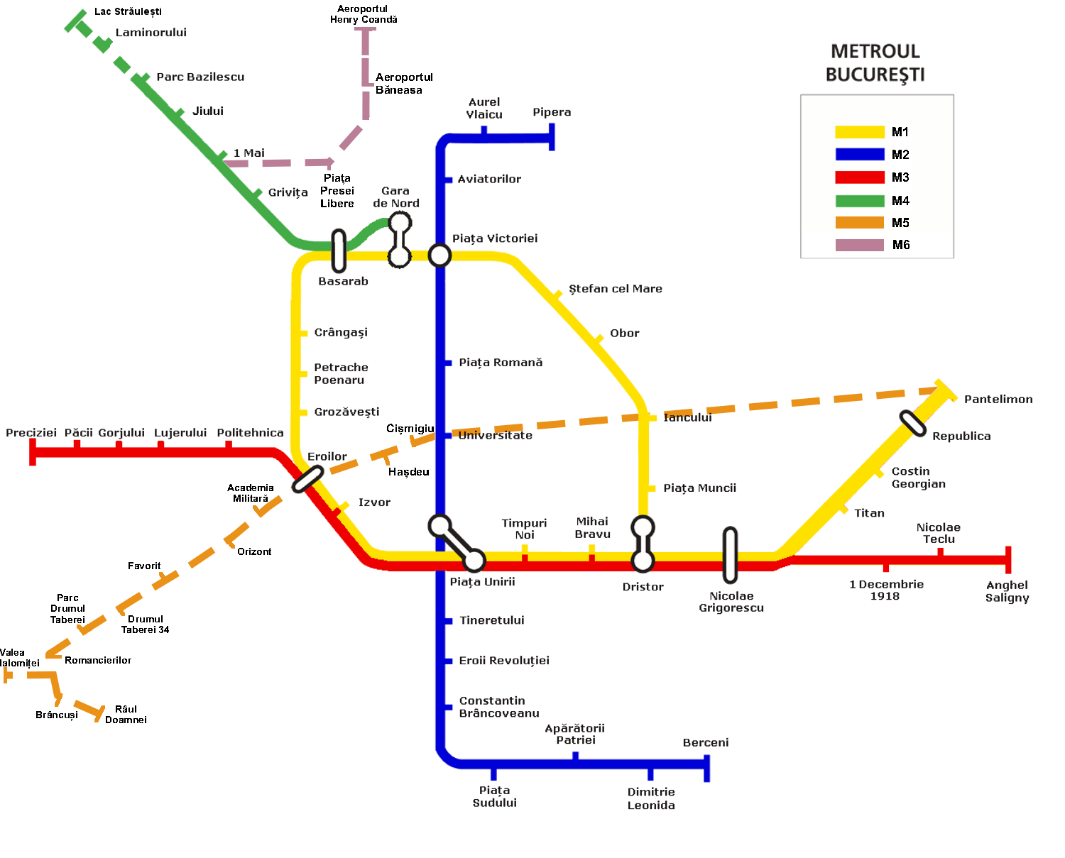 An updated map of the Underground rapid transit system in Bucharest, Romania. Shows extensions currently in construction as well as planned extensions. Station names are provided only in Romanian (since this is how they are signposted).